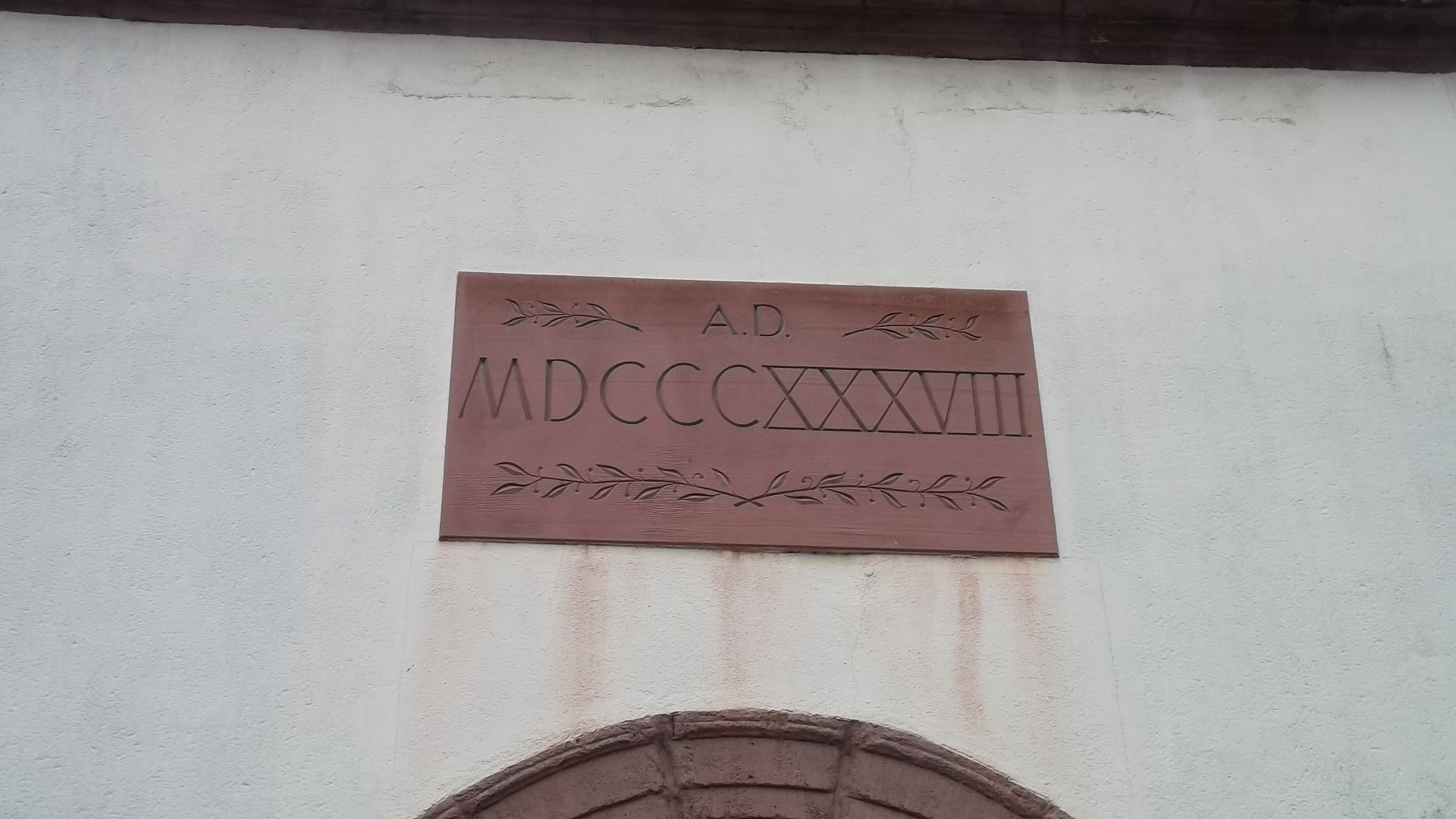 Exterior of the protestant church in Werschweiler, Saarland, Germany